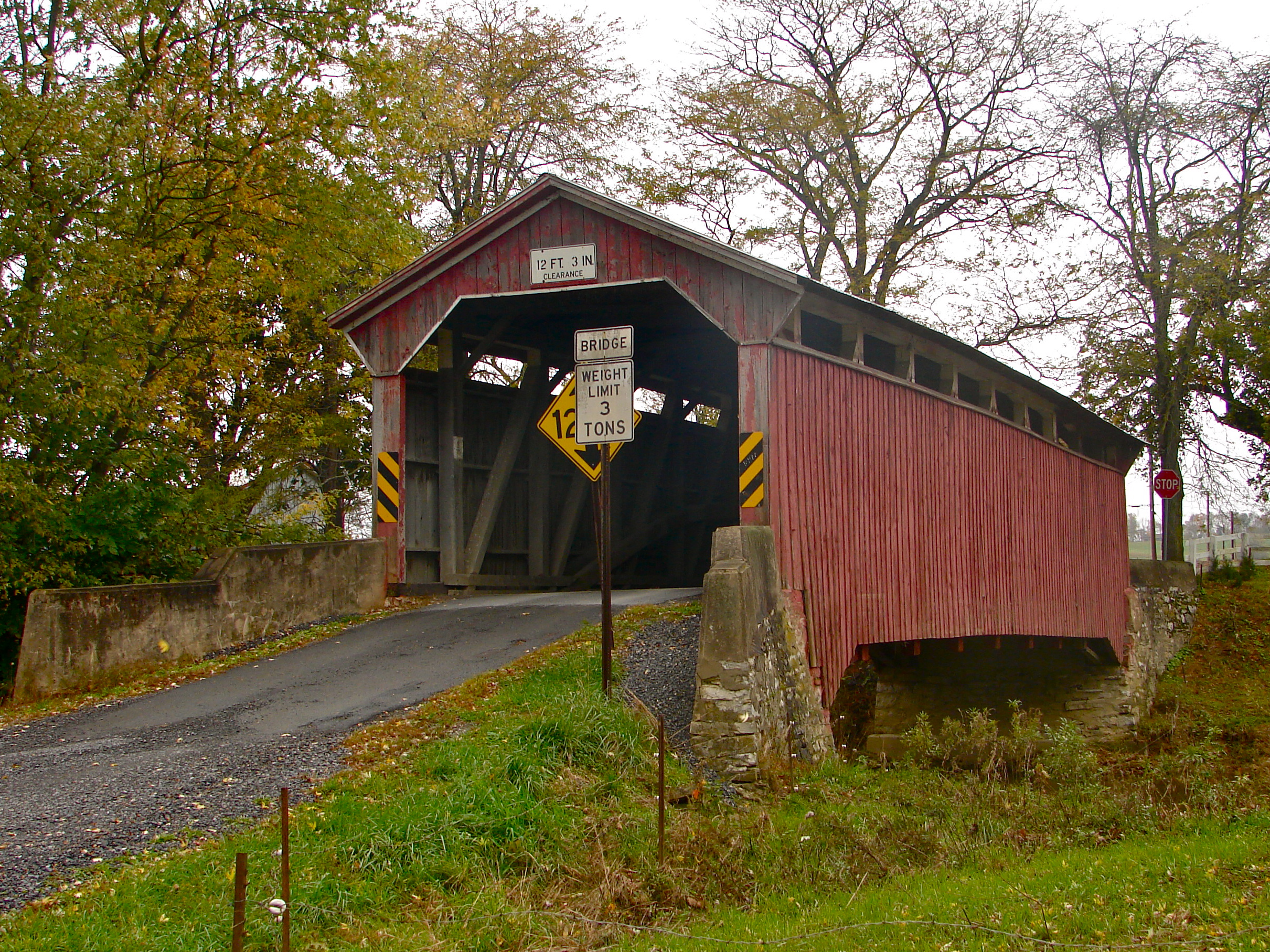 Gottlieb Brown Covered Bridge on the NRHP since August 8, 1979 Located east of Potts Grove on Township 594 in East Chillisquaque Township, Northumberland County, Pennsylvania. Extends into Liberty Township in Montour County